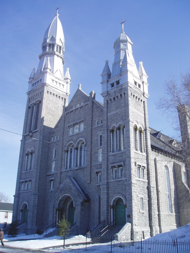 Taken by SimonP in February 2005